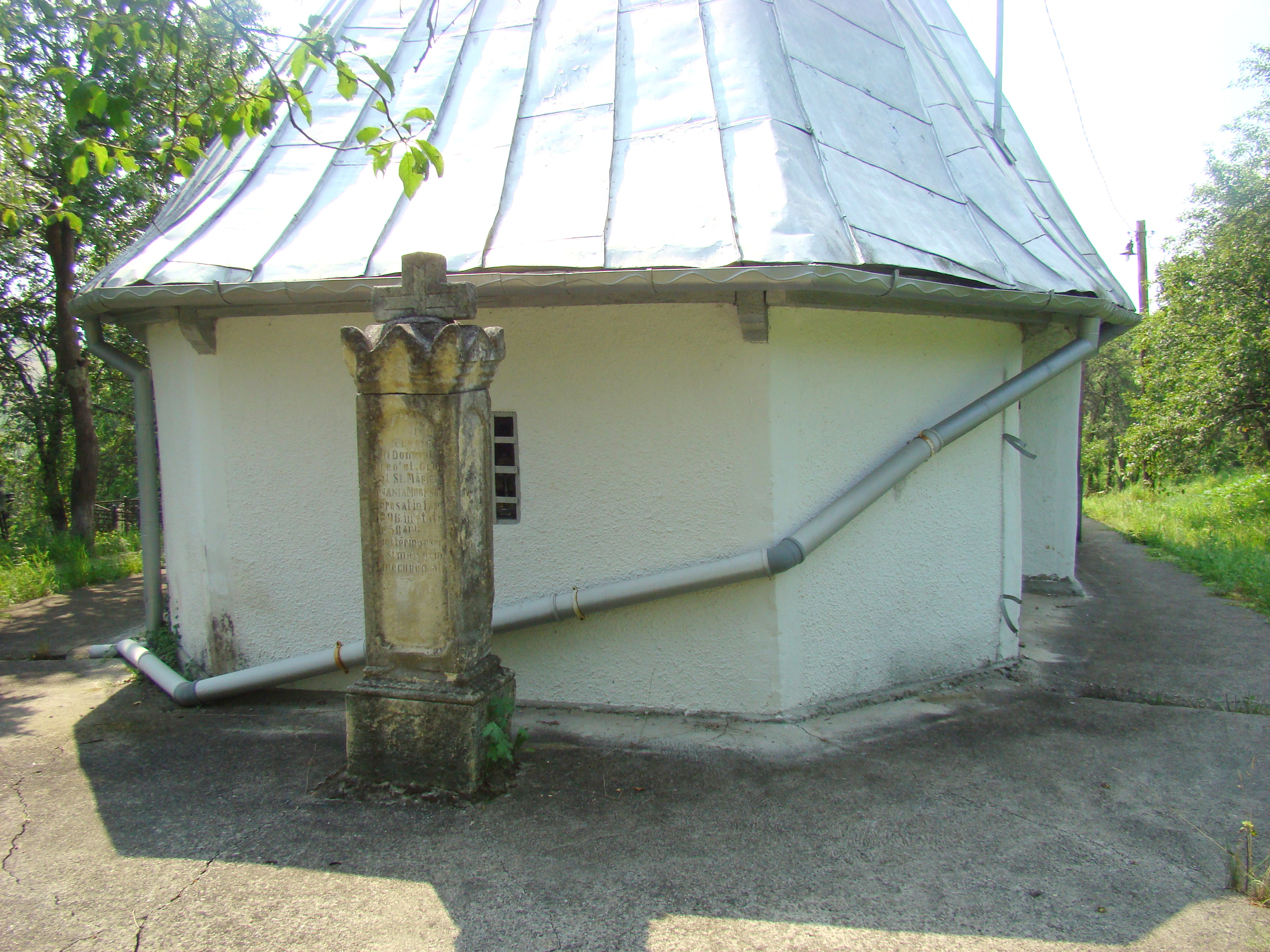 Wooden church in Sântă Măria, Sălaj county, Romania